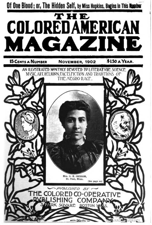 The original cover of the magazine in which "Of One Blood" was published. It features the author on the cover and the month and year it was published. The price of the magazine at the time is also featured.